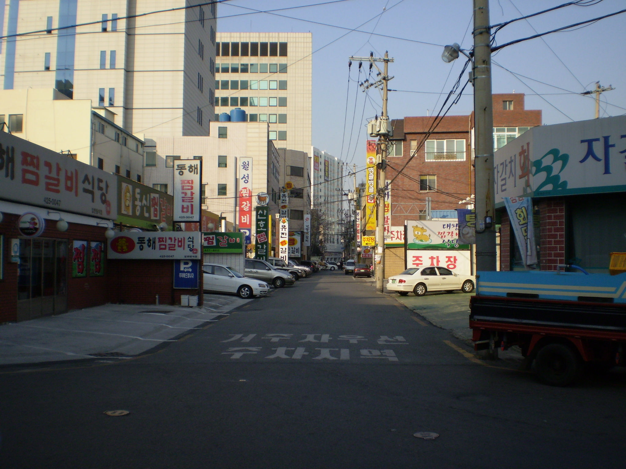 Jjim galbi street in Dongin-dong, Jung-gu, Daegu, South Korea.